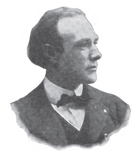 an Ohio politician named John S. Snook